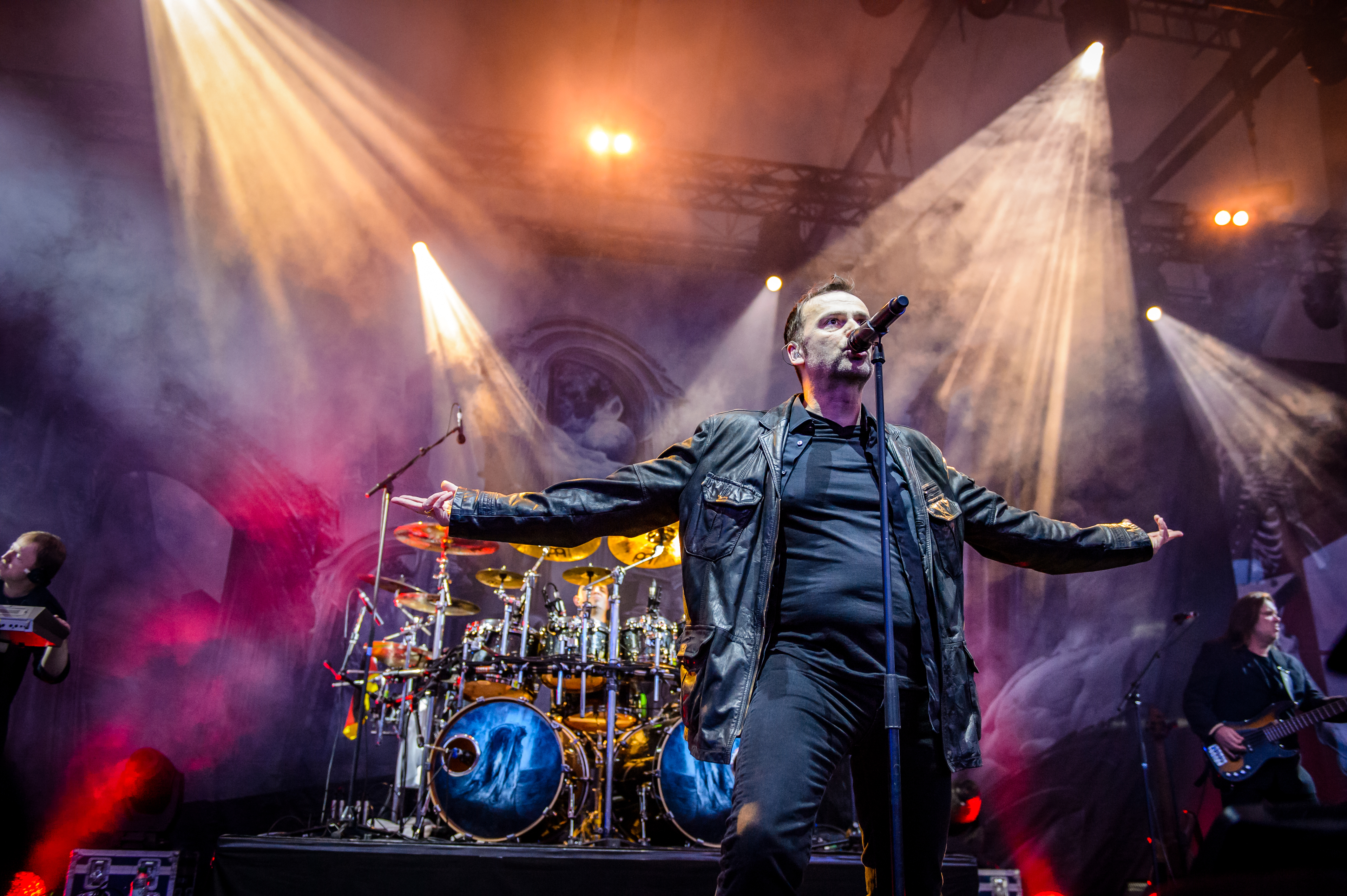 Blind Guardian; RockHard Festival 2016